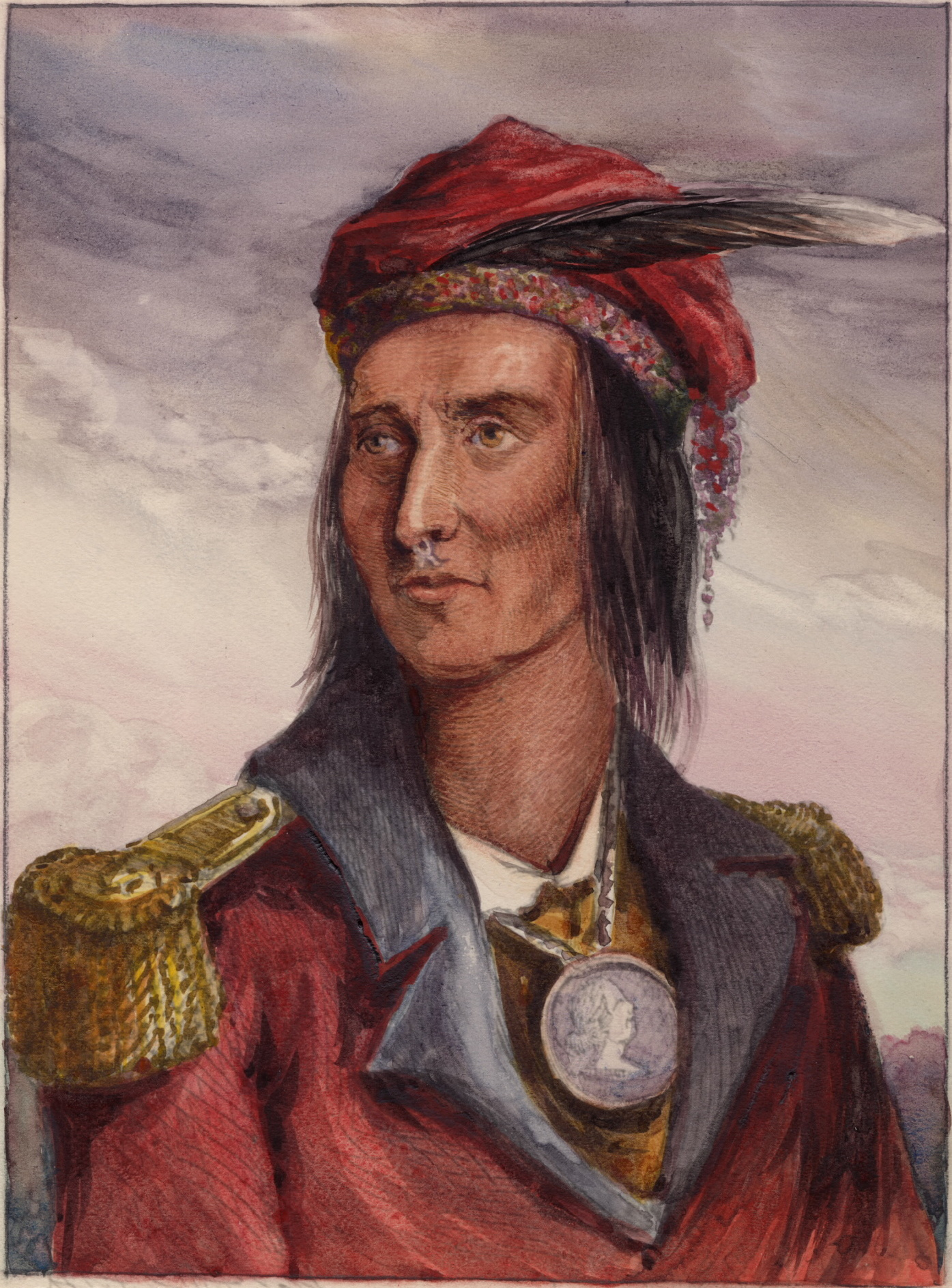 A version of Lossing's engraving (in wood) of Shawnee chief Tecumseh with water colors on platinum print after a pencil sketch by French trader Pierre Le Dru at Vincennes, taken from life about 1808.[1] For origins and likeness, see the Commons description of Lossing's work.